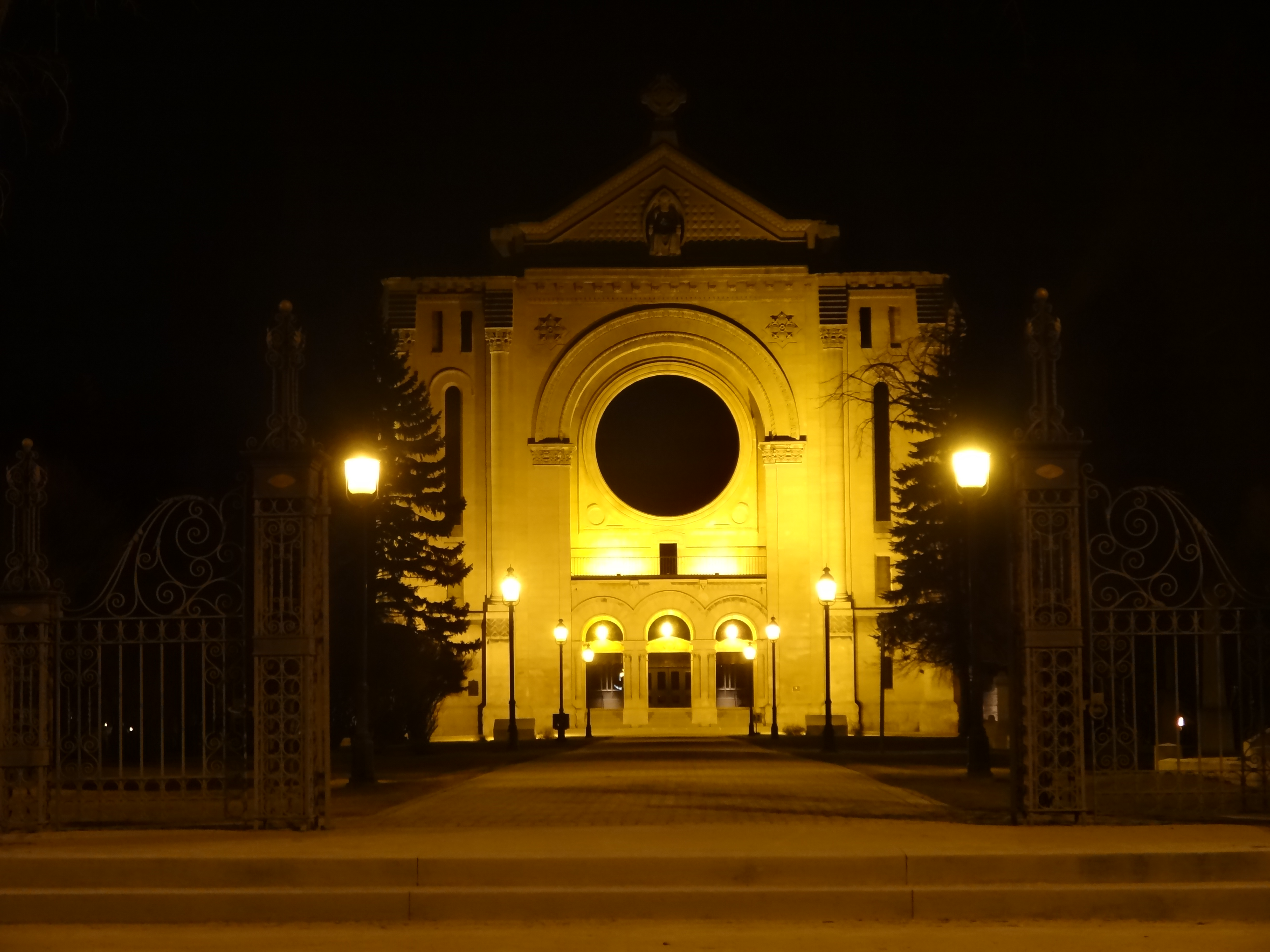 A view of the St. Boniface Cathedral at night